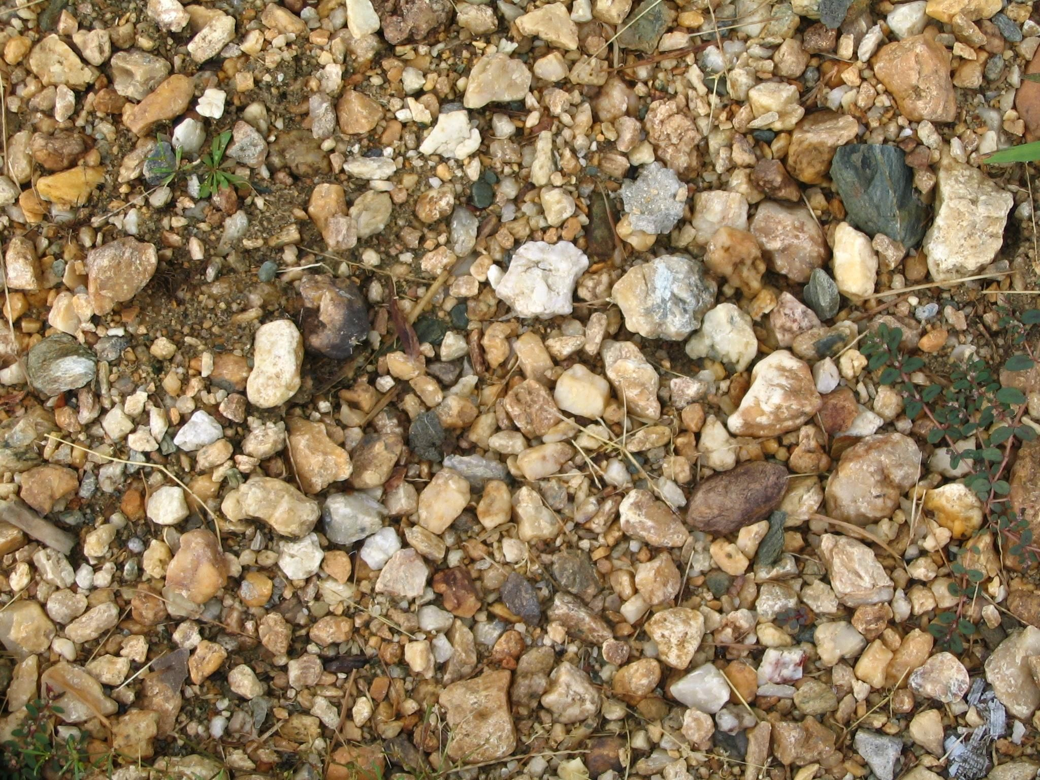 Image title: Gravel texture Image from Public domain images website